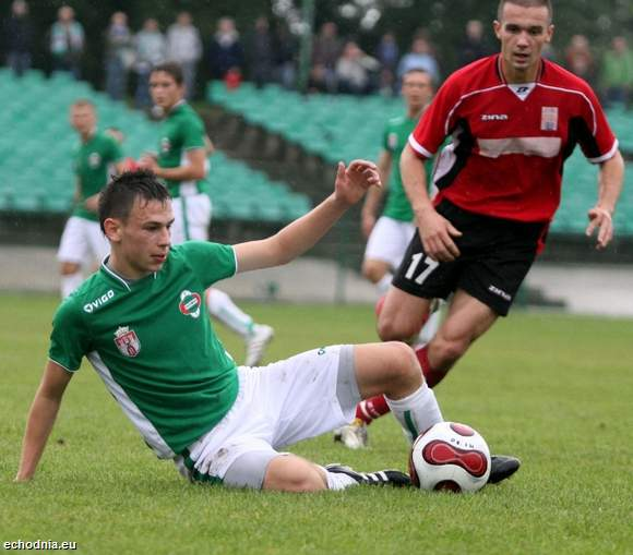 Radomiak Radom football team player - 2011/12